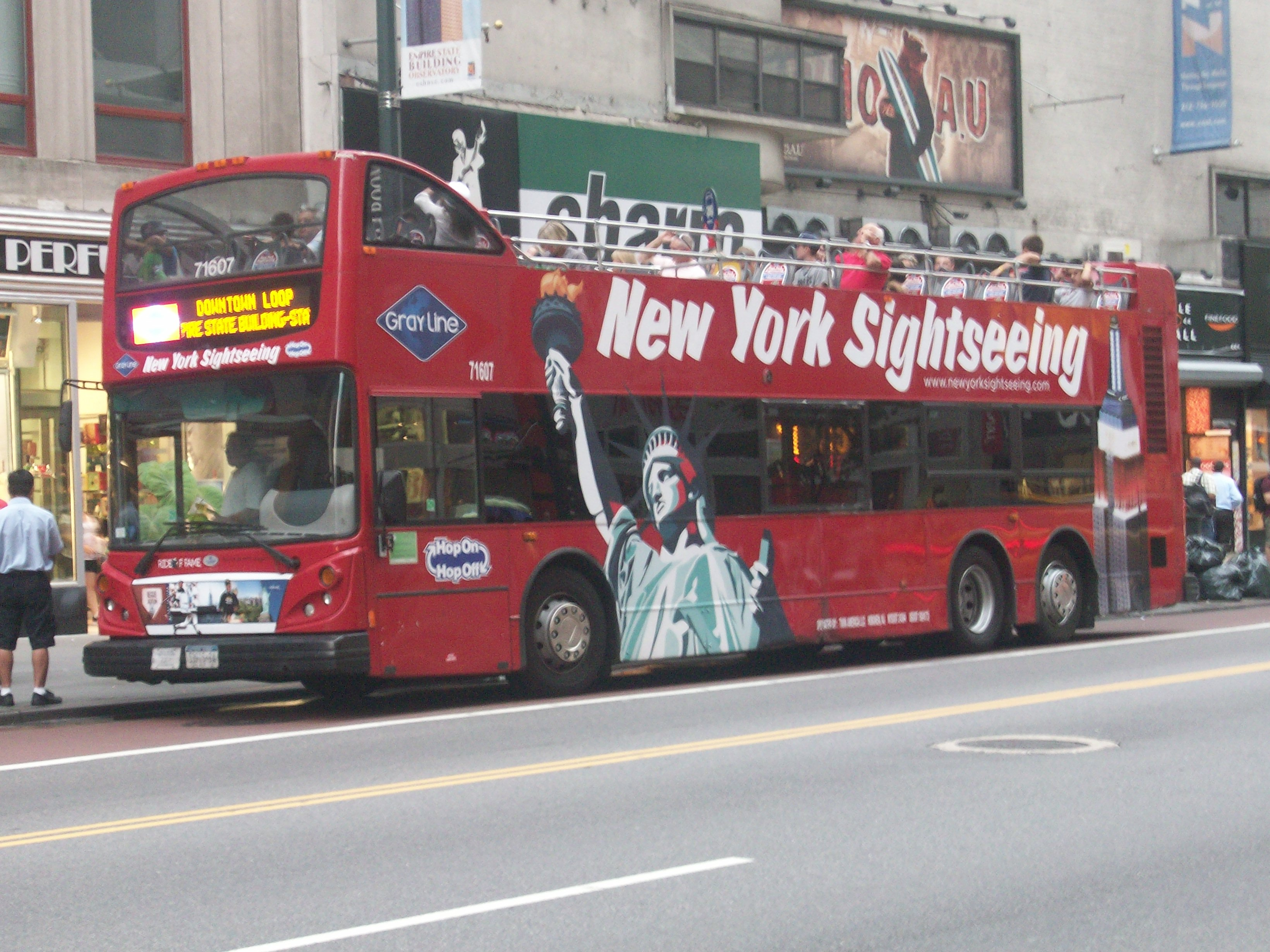 Alexander Dennis Enviro500 open-top bus operated by Grayline New York Sightseeing